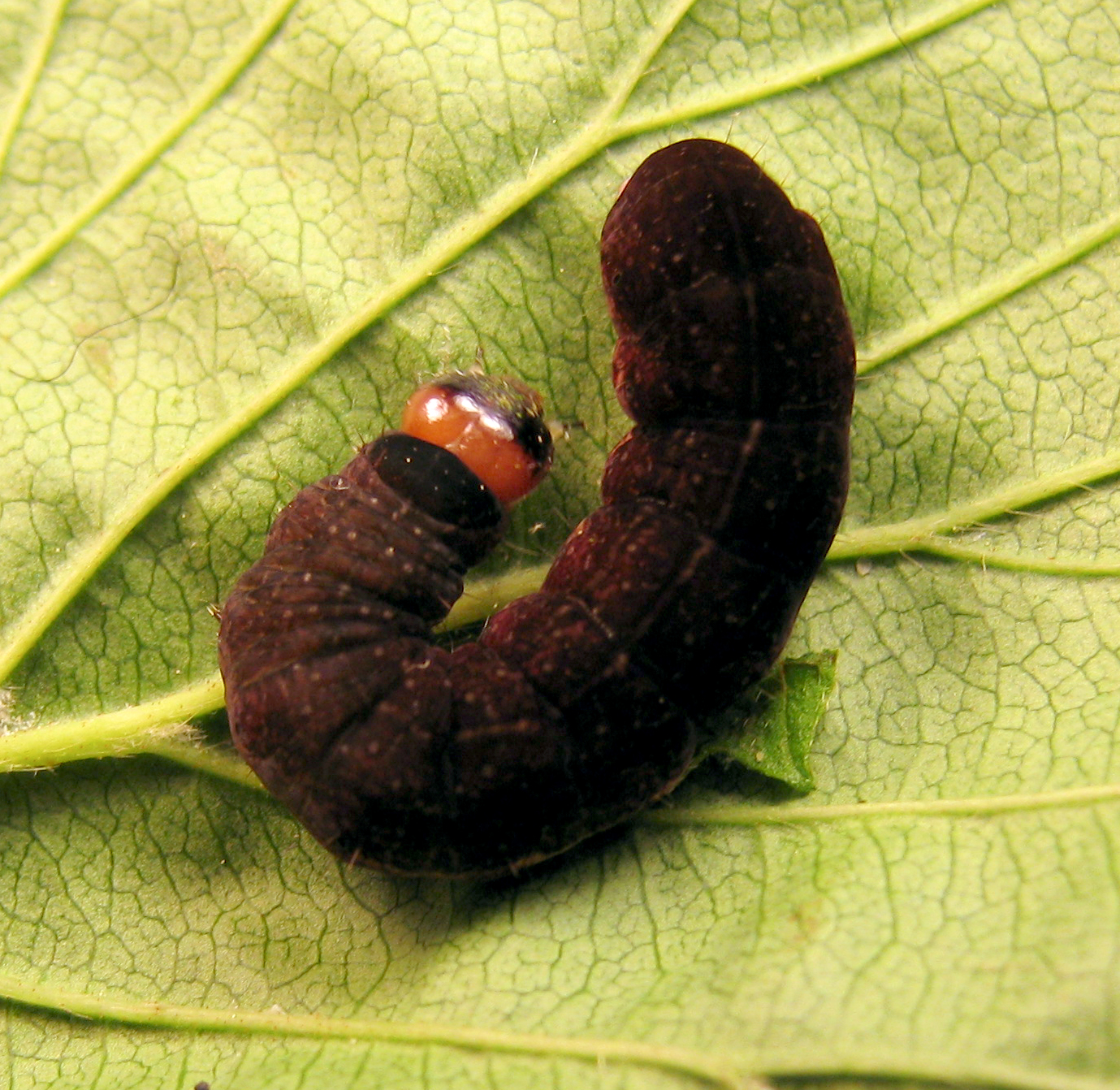 Caterpillar of noctuid moth, Eupsilia on Viburnum dentatum, final instar. Size: 25-30 mm. Briar Bush Nature Center, Montgomery County, Pennsylvania, USA.